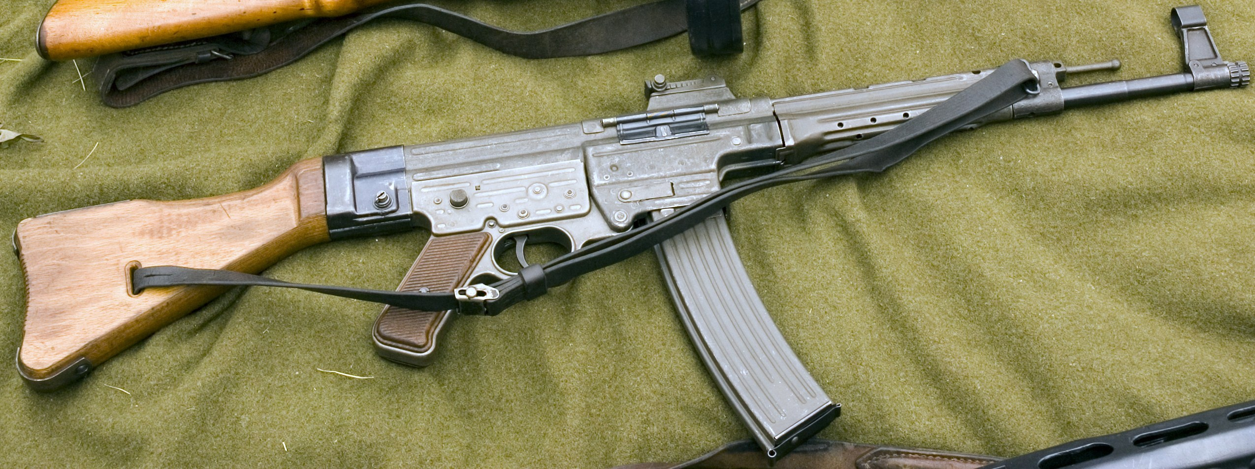 M1 Garand, PPsh-41, Sturmgewehr 44. These folks had over $100,000 of machine guns laid out on that tarp.